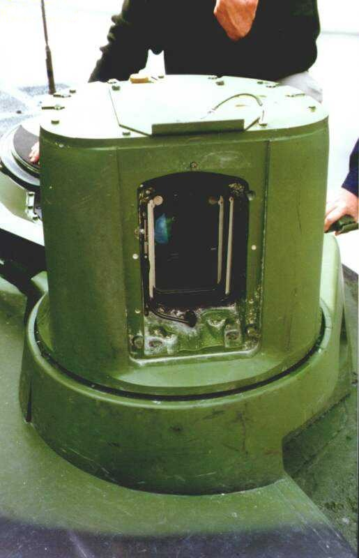 Periscope of an AMX-56 Nexter Leclerc.